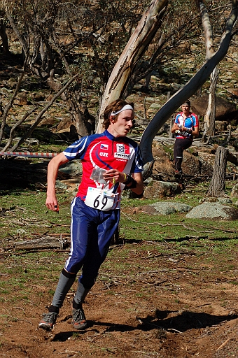 Vojtěch Král (CZE) Junior World Orienteering Championships 2007 -- Long